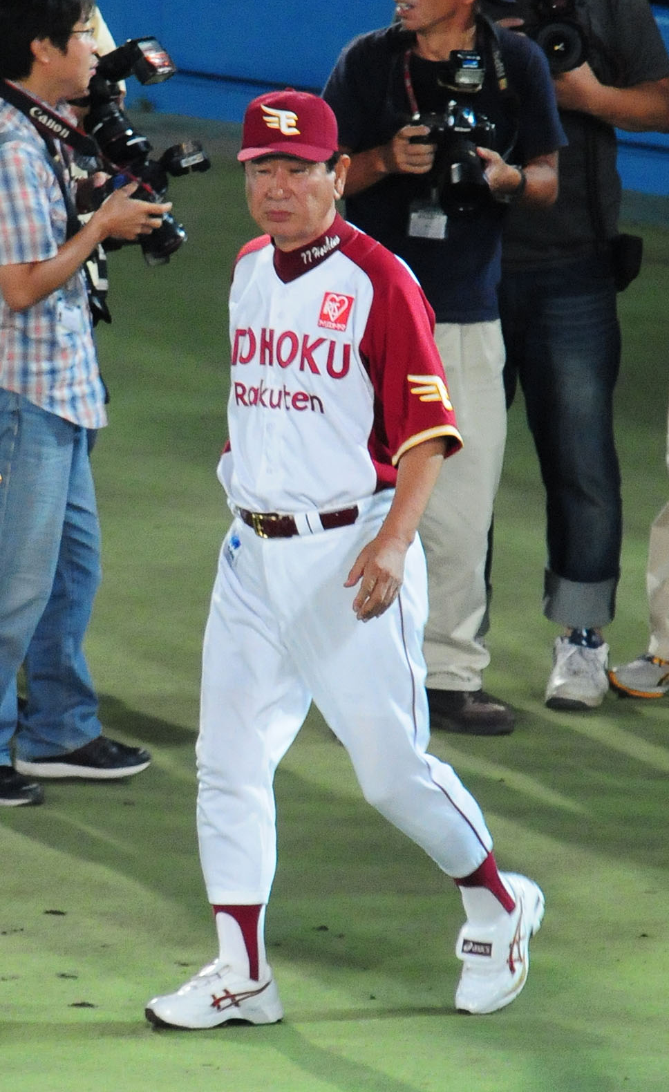 Senichi Hoshino, manager of the Tohoku Rakuten Golden Eagles, at Akita Prefectural Baseball Stadium.